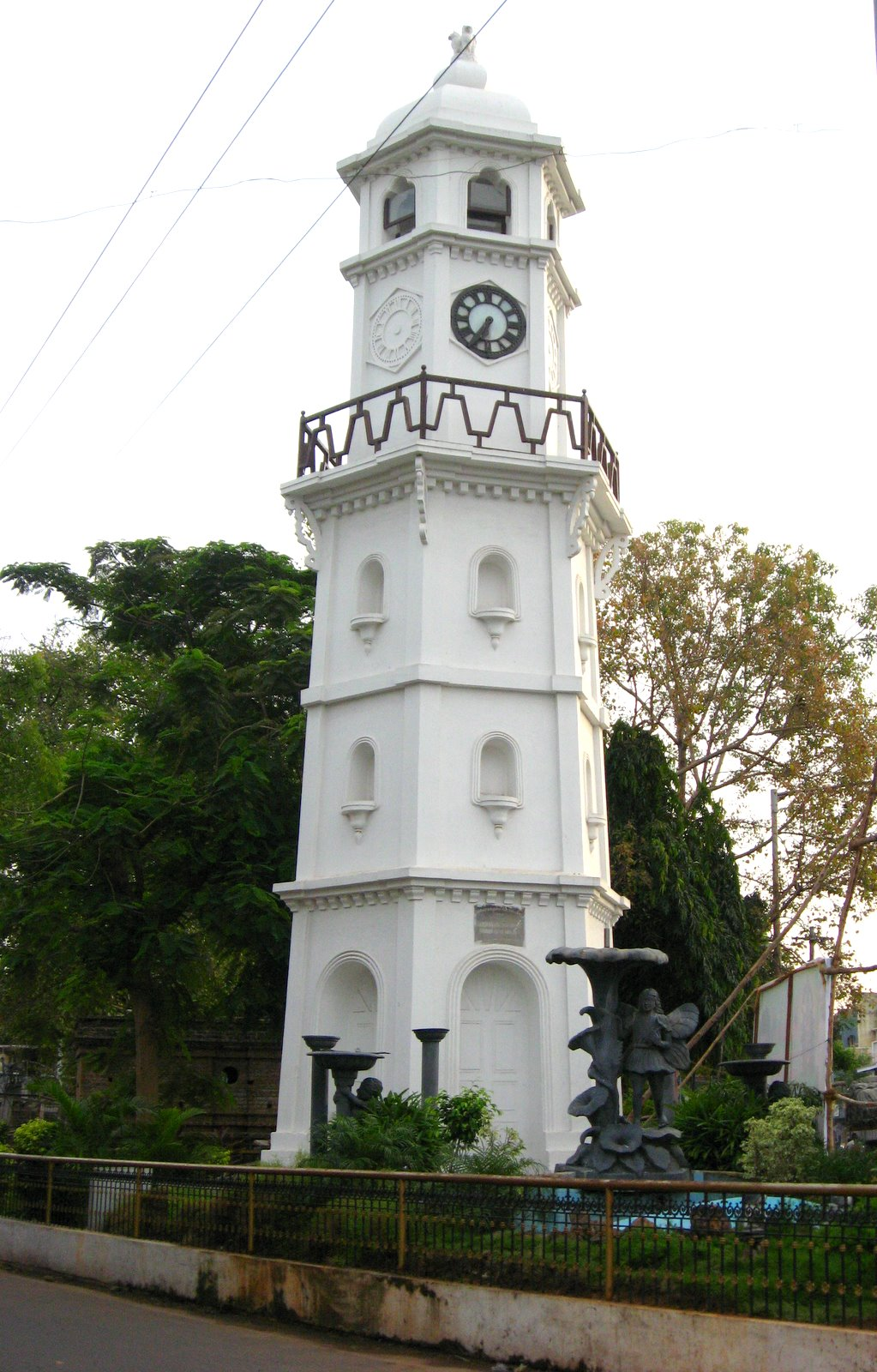 A photo of the Clock Tower in the town of Muthialpet in Pondicherry state of India.